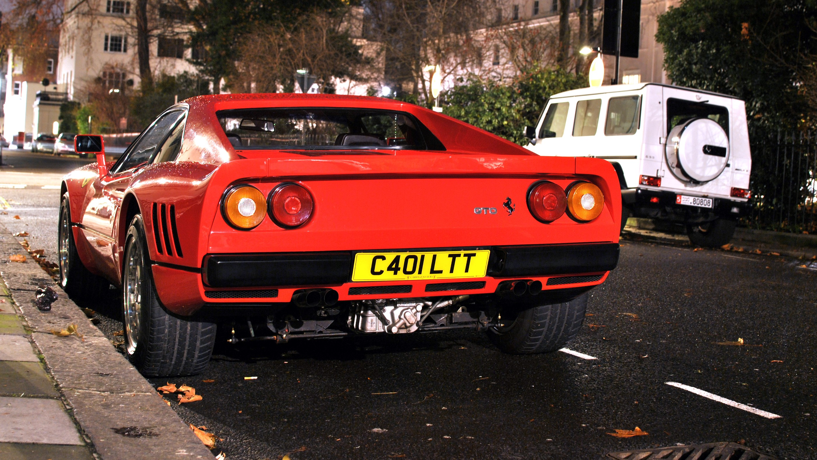 Ferrari 288 GTO in Belgravia, London